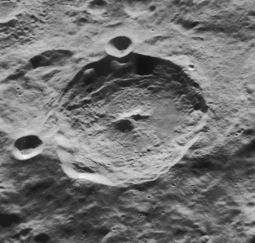 Oblique view of Plutarch, on the moon.